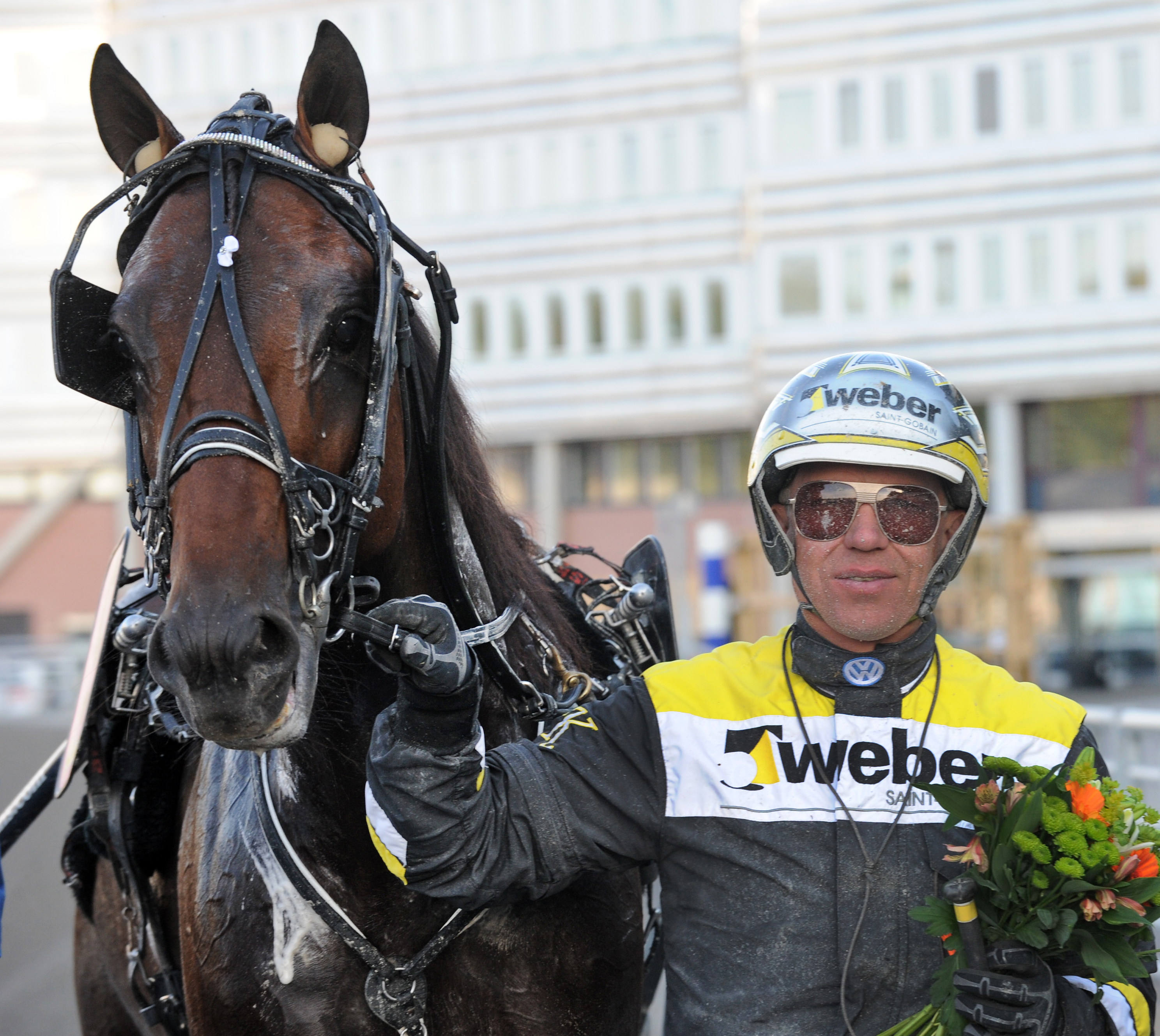 Standout and driver Örjan Kihlström 2012.